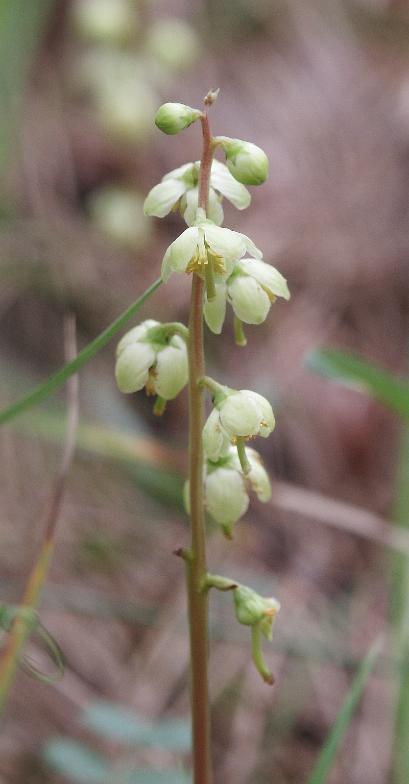 Pyrola chlorantha, Tauberland, Germany